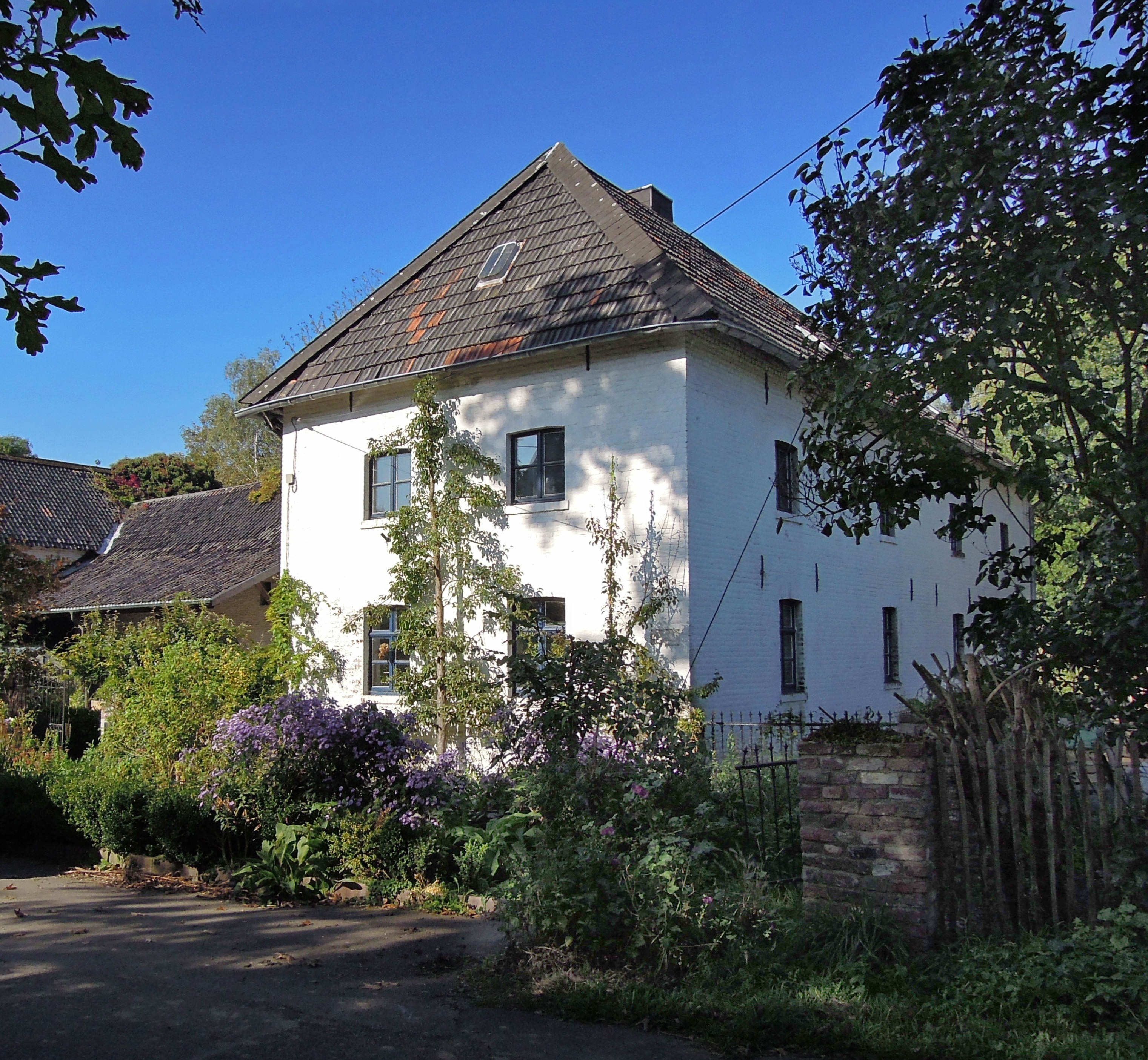 Cultural heritage monument No. 10 in Übach-Palenberg